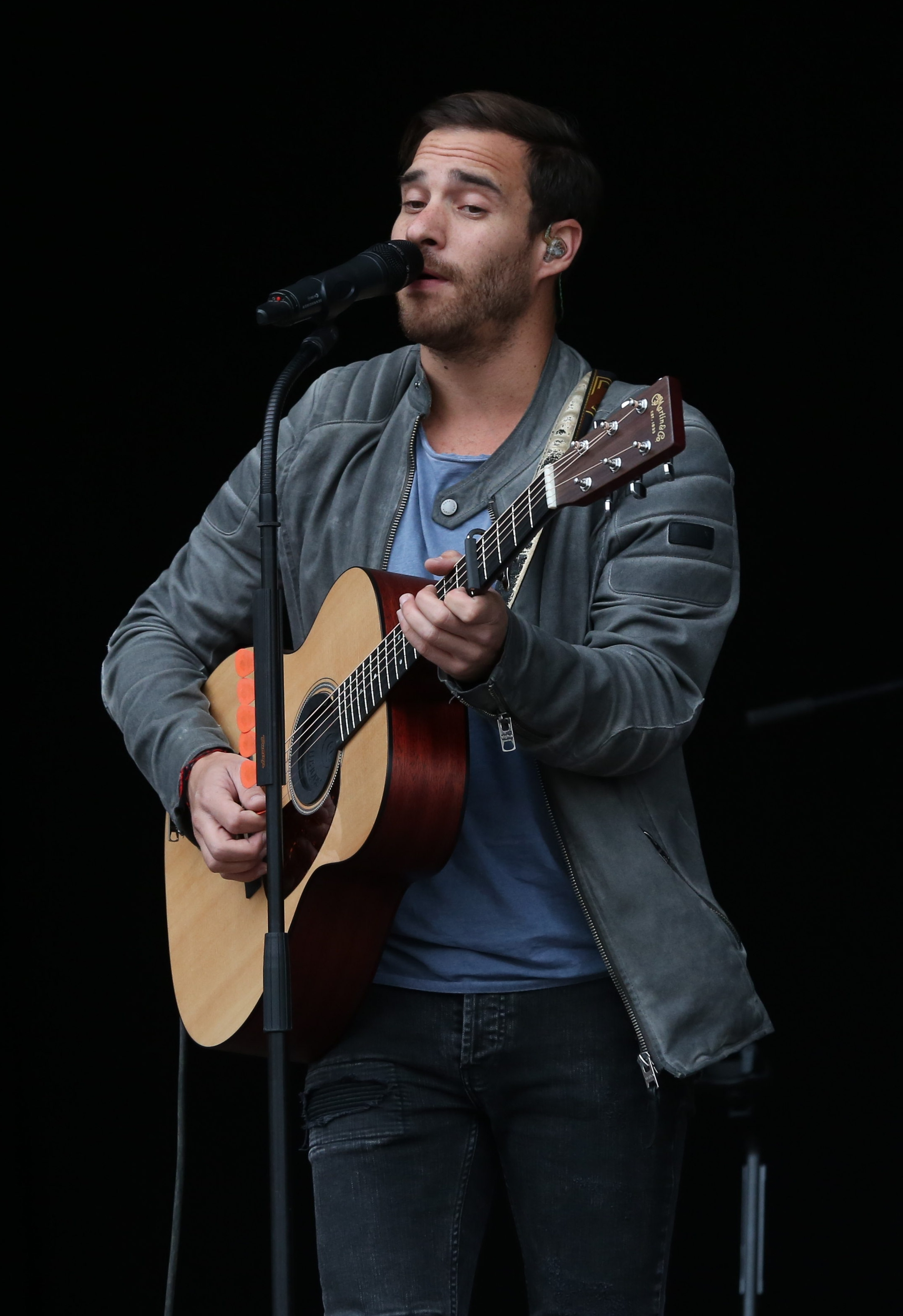 Lions Head (Ignacio "Iggy" Uriarte) at the Tag der Sachsen 2017 in Löbau; Hitradio RTL/Radio Lausitz stage at the Neumarkt